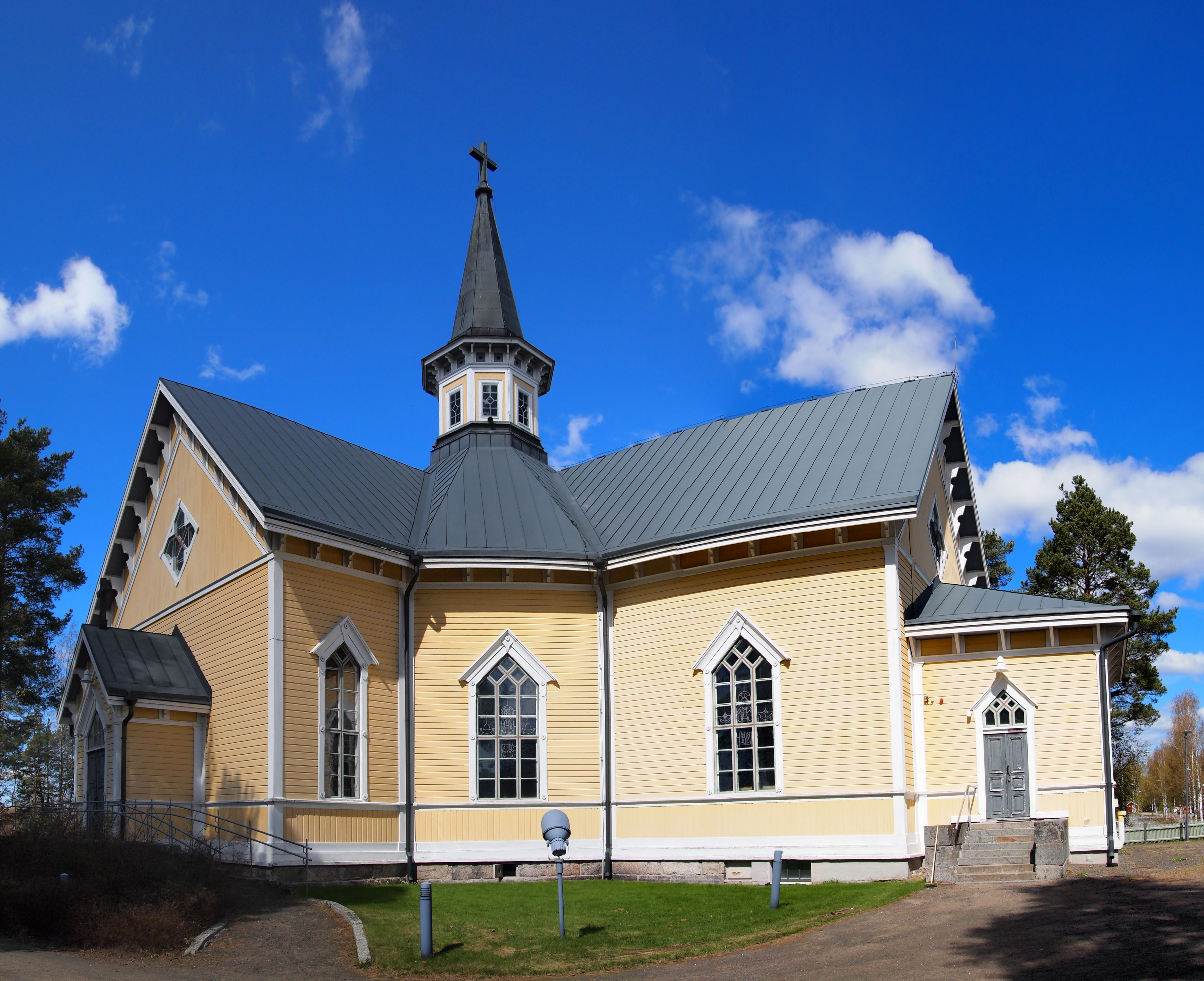 Church in Petäjävesi. This photograph was taken with an Olympus E-PL1